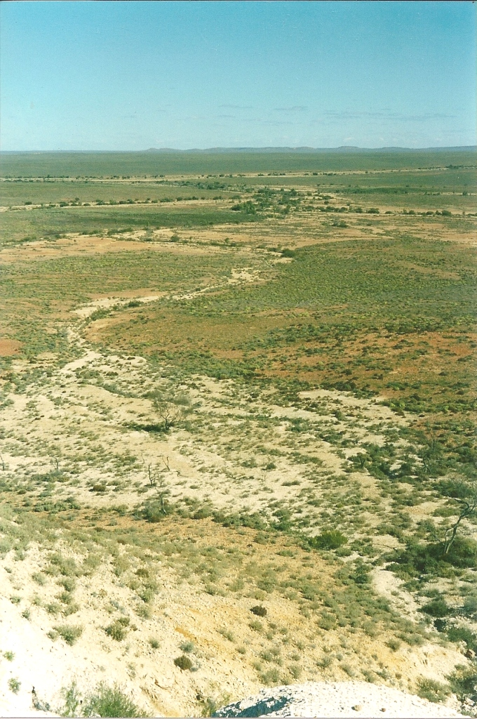 Sturt_National_Park7_dry_creek_bed seen from the cliff face near Olive Downs Station